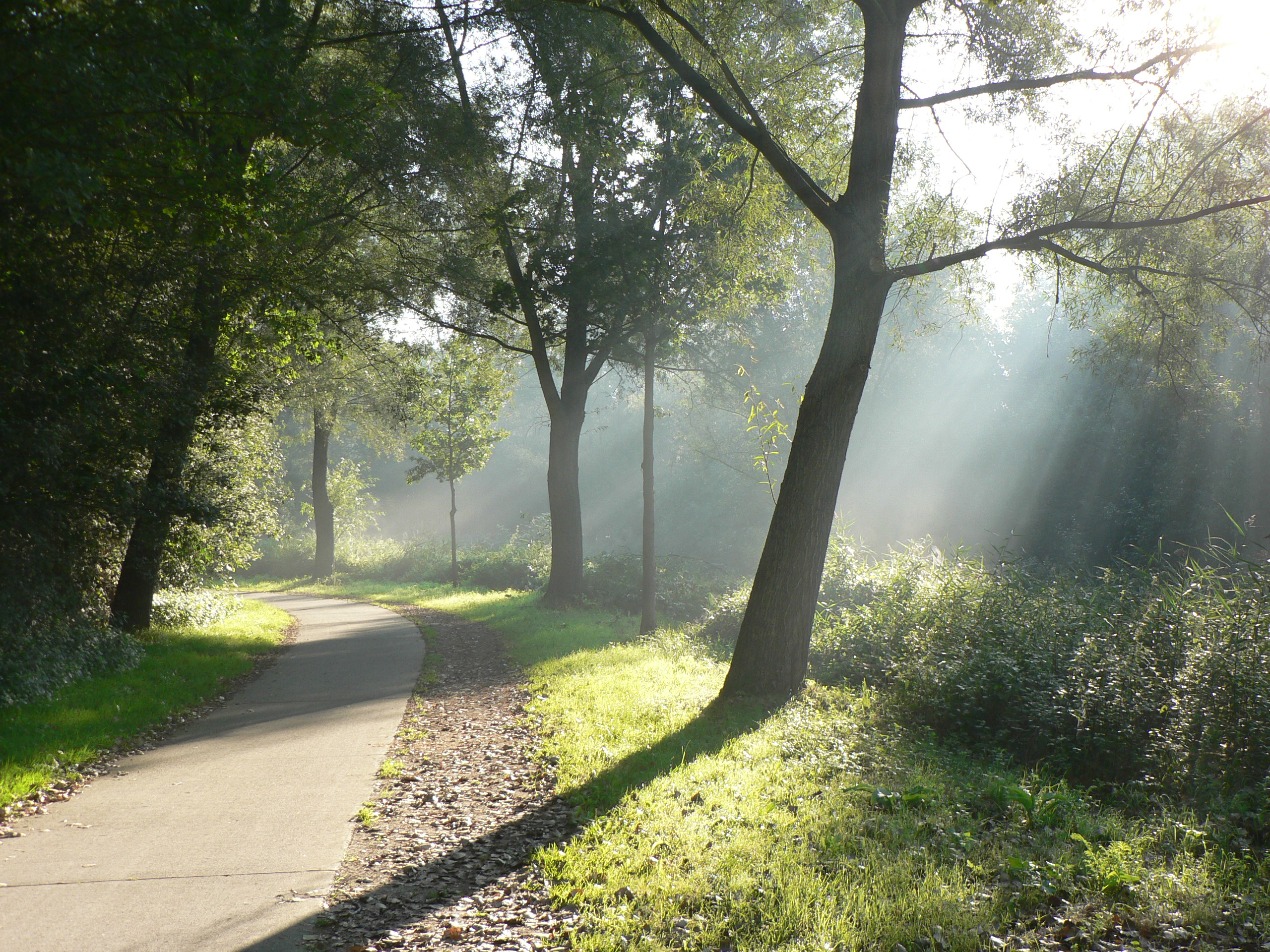 cycle track to Diepenbeek campus.